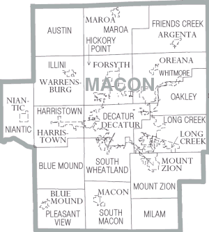 Macon County Illinois